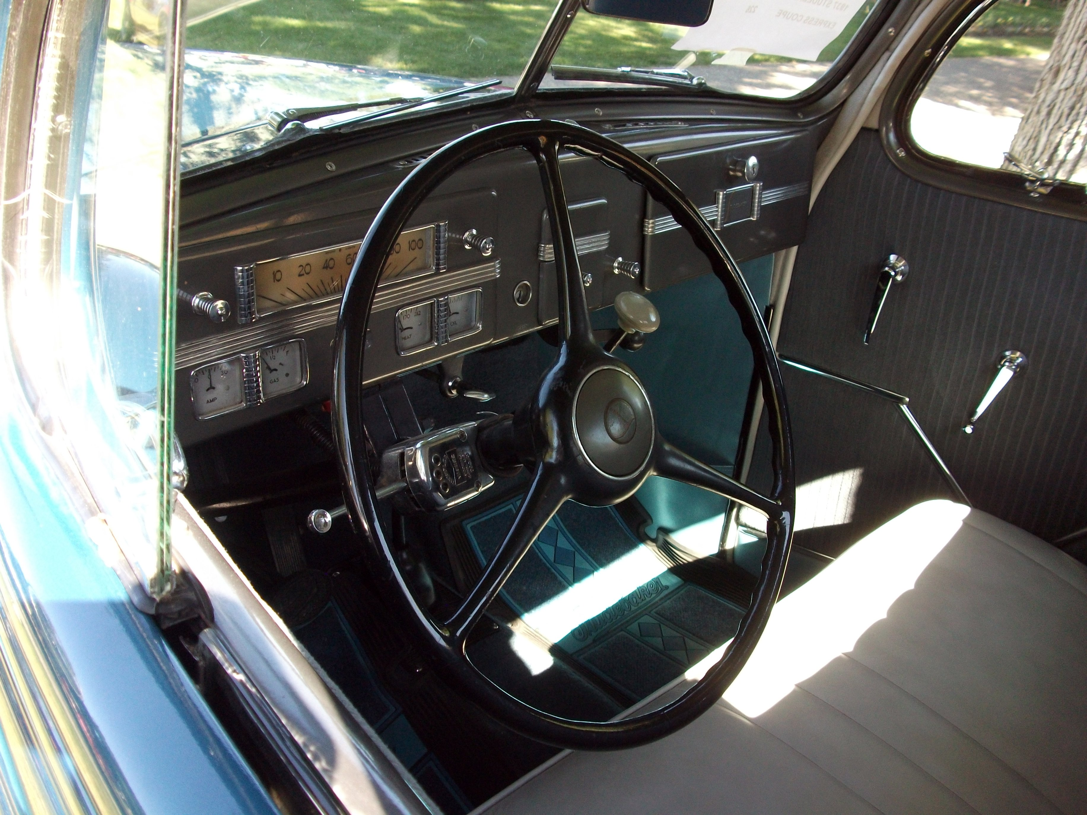 Quite a rare 1937 Studebaker Express Coupe J-5. These classic trucks were on of the first attempted to provide a more civilized/upmarket truck. The cab and forward was mostly a Studebaker Dictator coupe and the rear was a 1/2 ton pickup box. Car like amenities where available. There were only 3,500-3,800 produced in 1937.